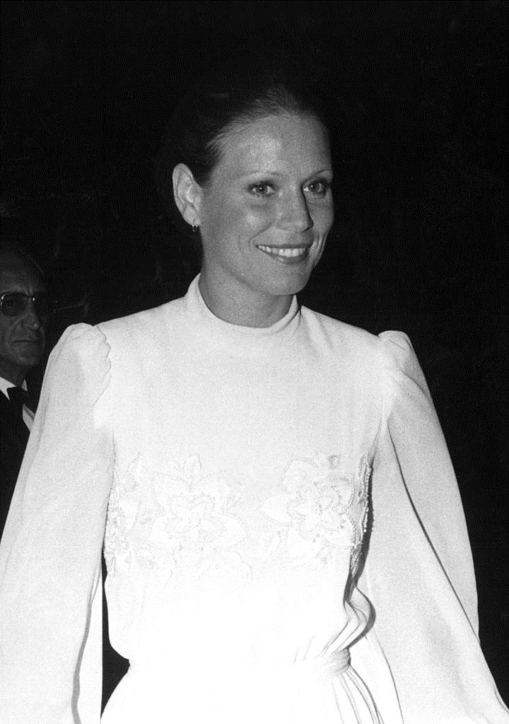 The Swiss actress Marthe Keller taking part in a party in Monte Carlo for the American singer and actor Frank Sinatra. Monte Carlo, 9th May 1975